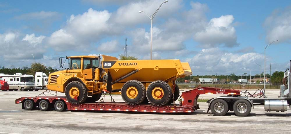 Globe Trailers Lowboy with Volvo A30D